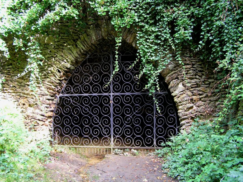 Mother Ludlam's Cave (White Witch of Waverley legend) Licensing: Category:Caves of England Category:Legends Category:English folklore